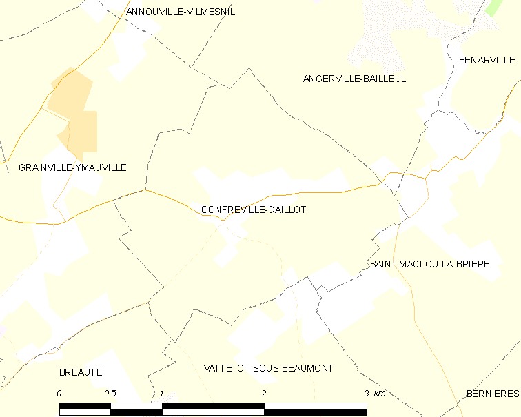 Map of French municipality Gonfreville-Caillot